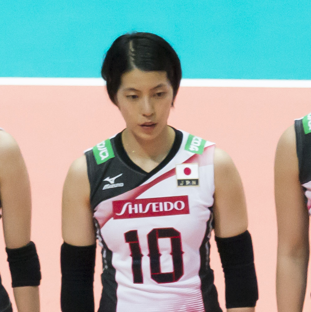 JAPAN TEAM 2. SARINA KOGA 3. NANA IWASAKA 4. RISA SHINNABE 9. HARUYO SHIMAMURA 10. KOYOMI TOMINAGA 11. YURIE NABEYA 12. MIYA SATO 13. MAI OKUMURA 14. AYAKA MATSUMOTO 16. RISA ISHII 18. MAMI UCHISETO 20. MAKO KOBATA 21. KOTOE INOUE 23. RIKA NOMOTO 24. MIZUKI TANAKA